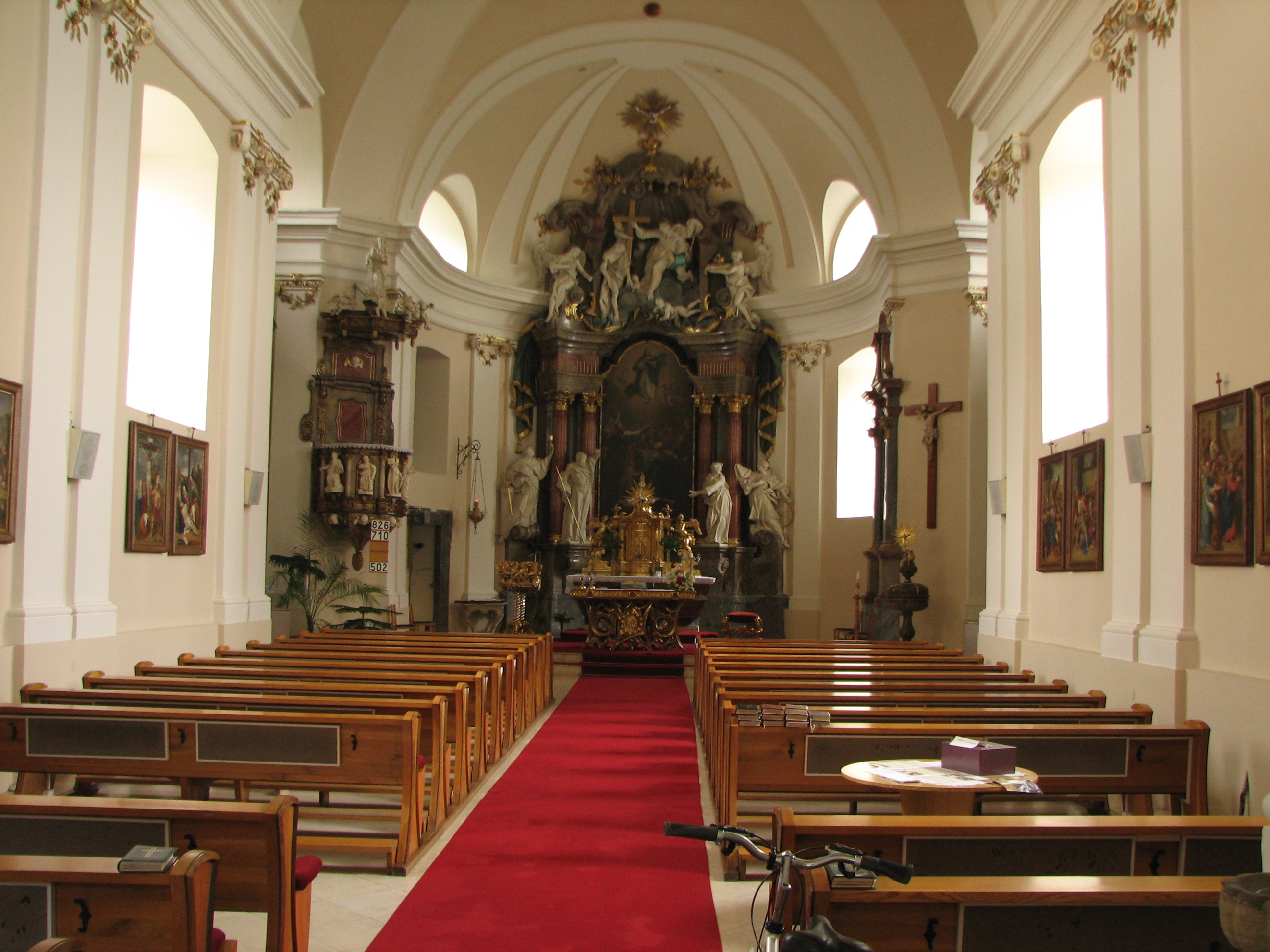 Ždánice - interior of the Assumption of the Virgin Mary church